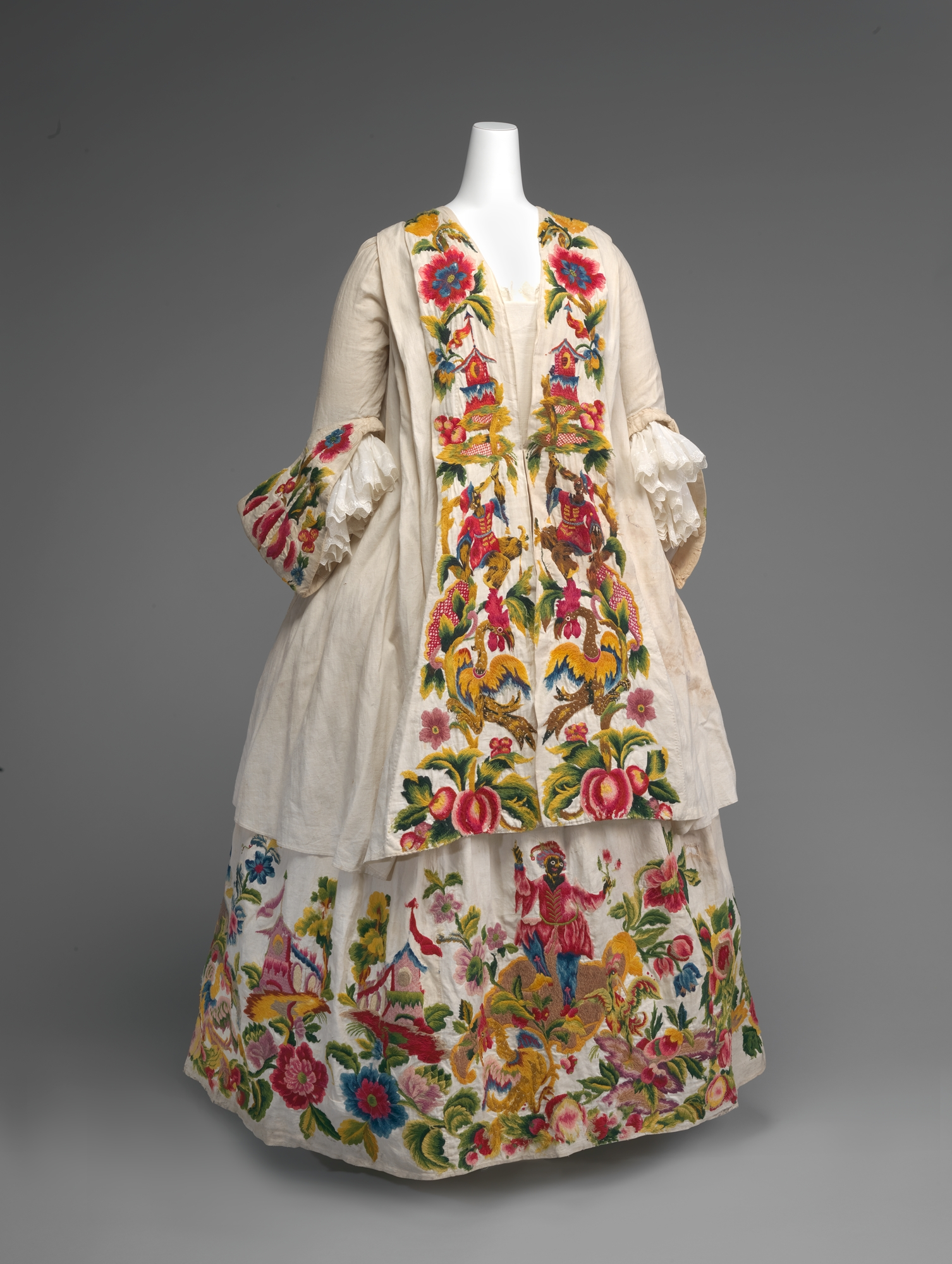 Italian; Dress